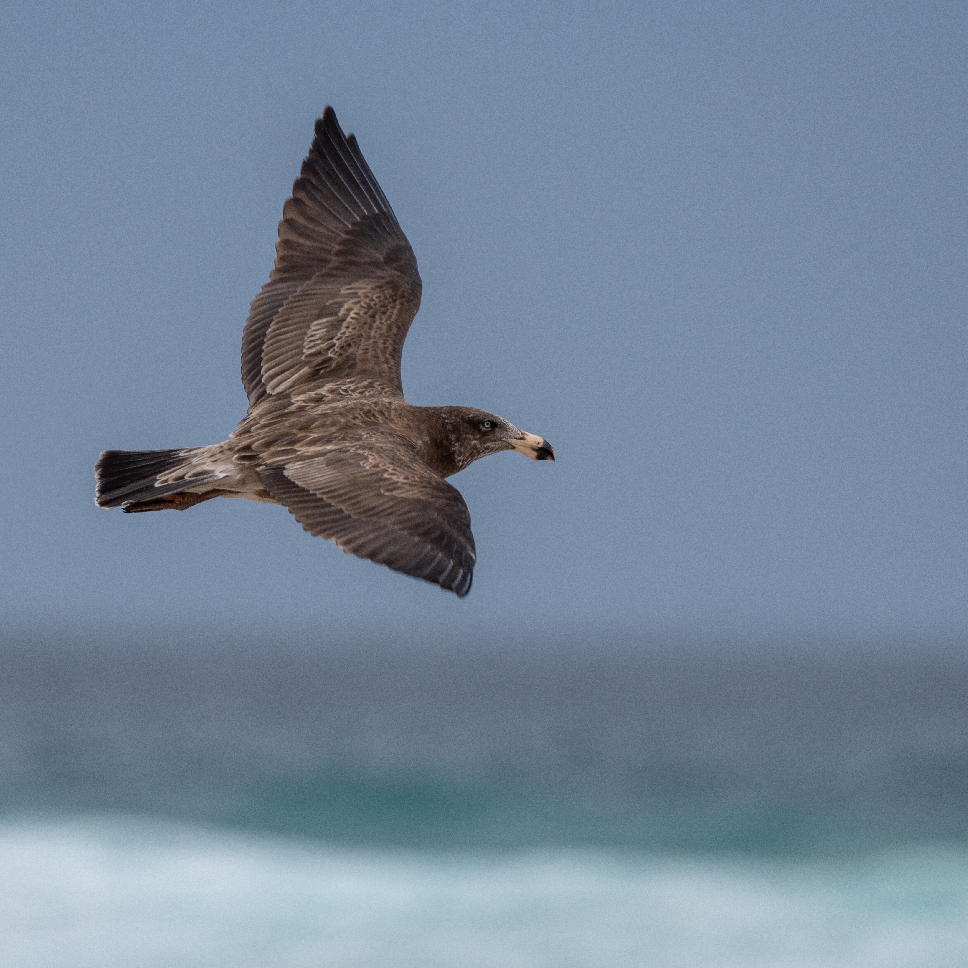 Juvenile Pacific Gull in flight.